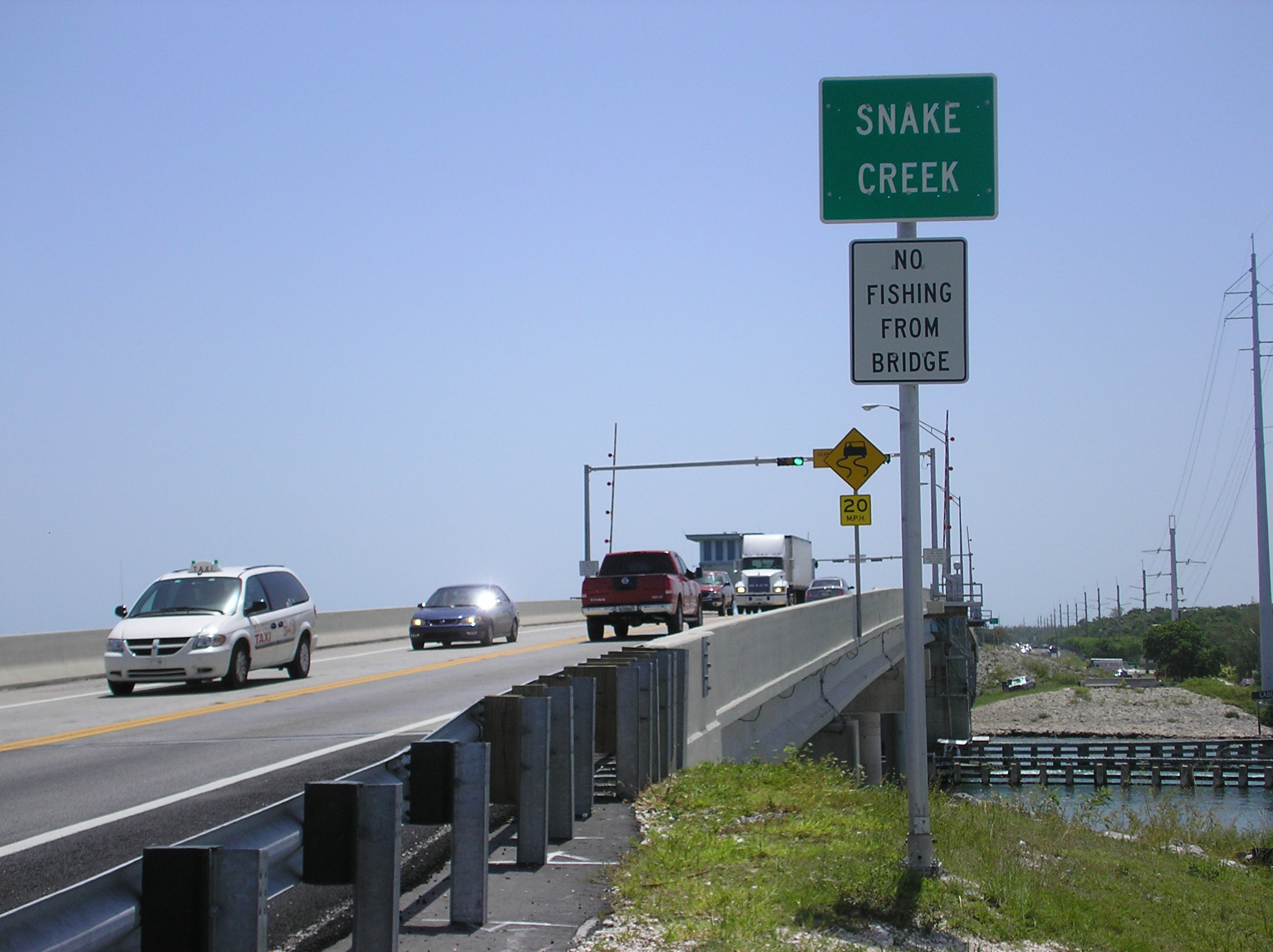 The drawbridge over Snake Creek in the Florida Keys lays at the southern end of Plantation Key, Florida.